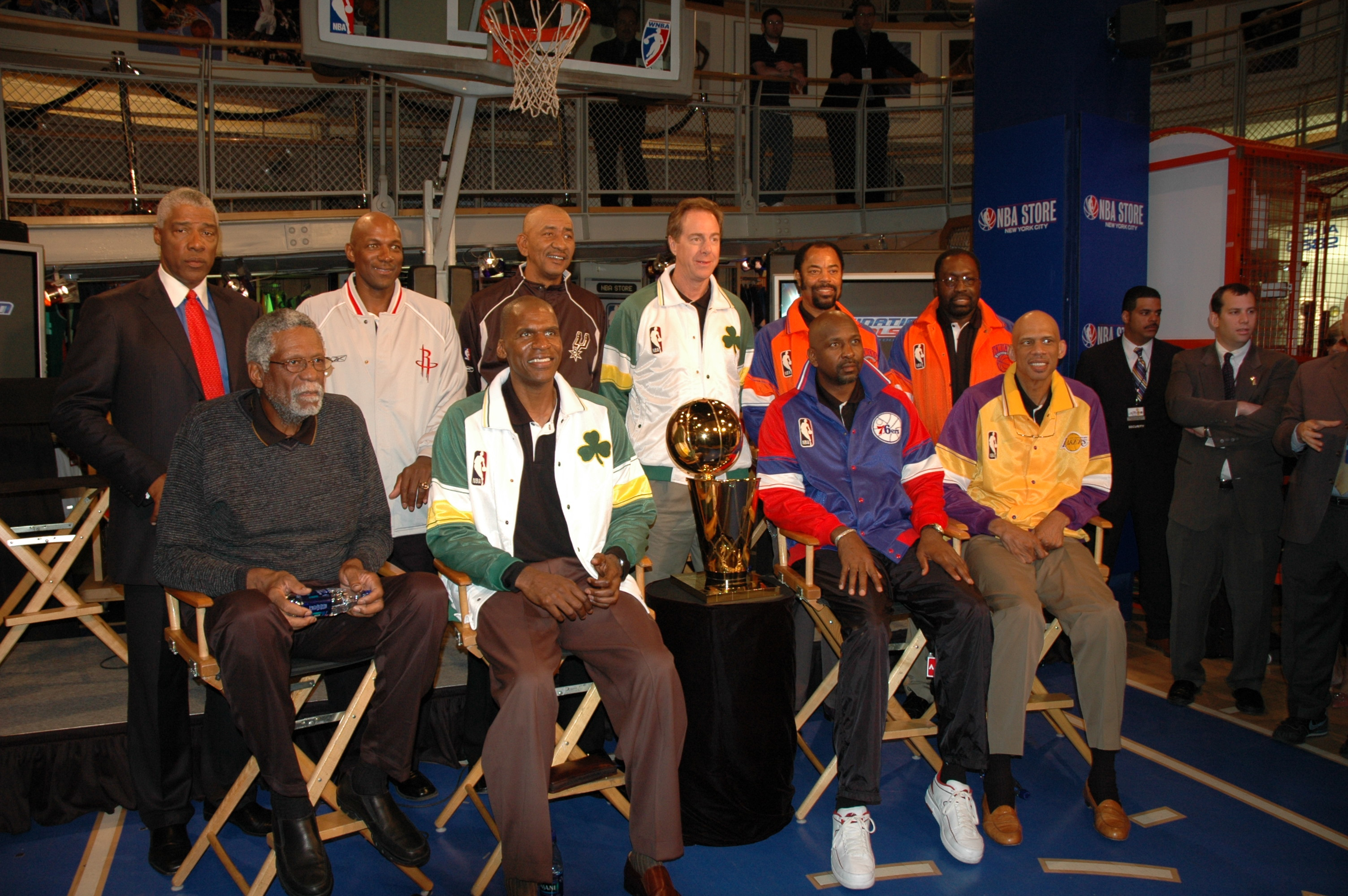 (From top left to right) NBA legends Julius "Dr. J" Erving, Clyde Drexler, George Gervin, Dave Cowens, Walt "Clyde" Frazier, Earl Monroe, (Bottom left to right) Bill Russell, Robert Parish, Moses Malone, and Kareem Abdul-Jabbar pose with the Larry O'Brien NBA Championship Trophy for the 2005 NBA Legends Tour: Destination Finals kick off held at the NBA store. The Tour will visit various cities and United Service Organizations (USO) supported military installations as part of the NBA's on going effort to support service members during the upcoming playoff season.